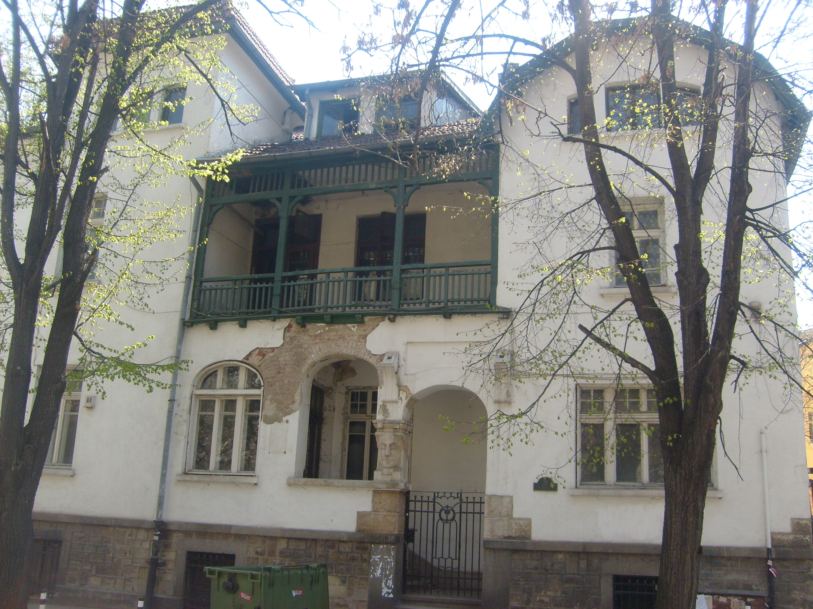 Old house in Sofia, Bulgaria